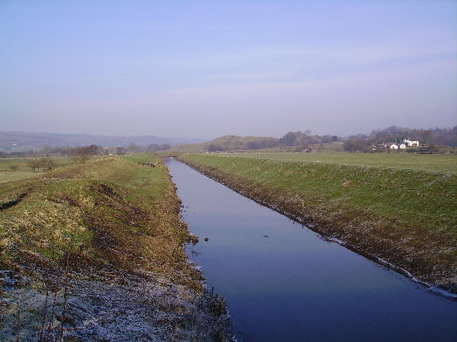 Underbarrow Pool. Taken from Helsington Pool Bridge. The waterway drains the Lyth Valley. This view looking north.